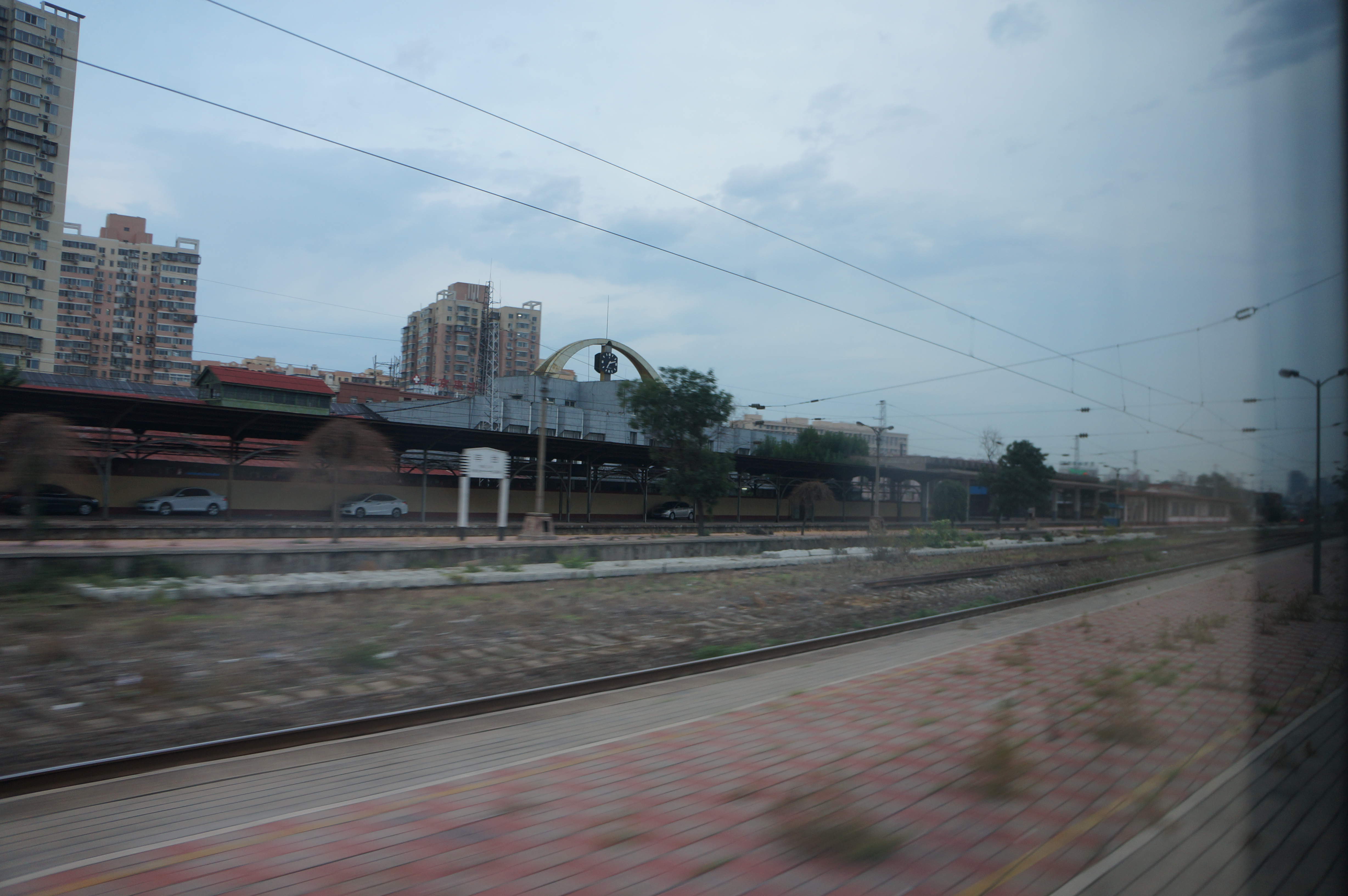 201606 Z9 passes Fengtai Railway Station